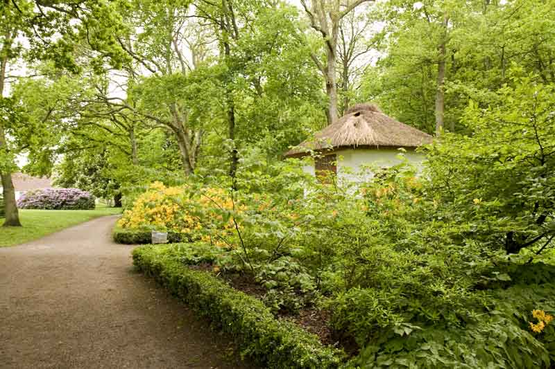 Part of Botanic Garden in Frederikshavn, Denmark